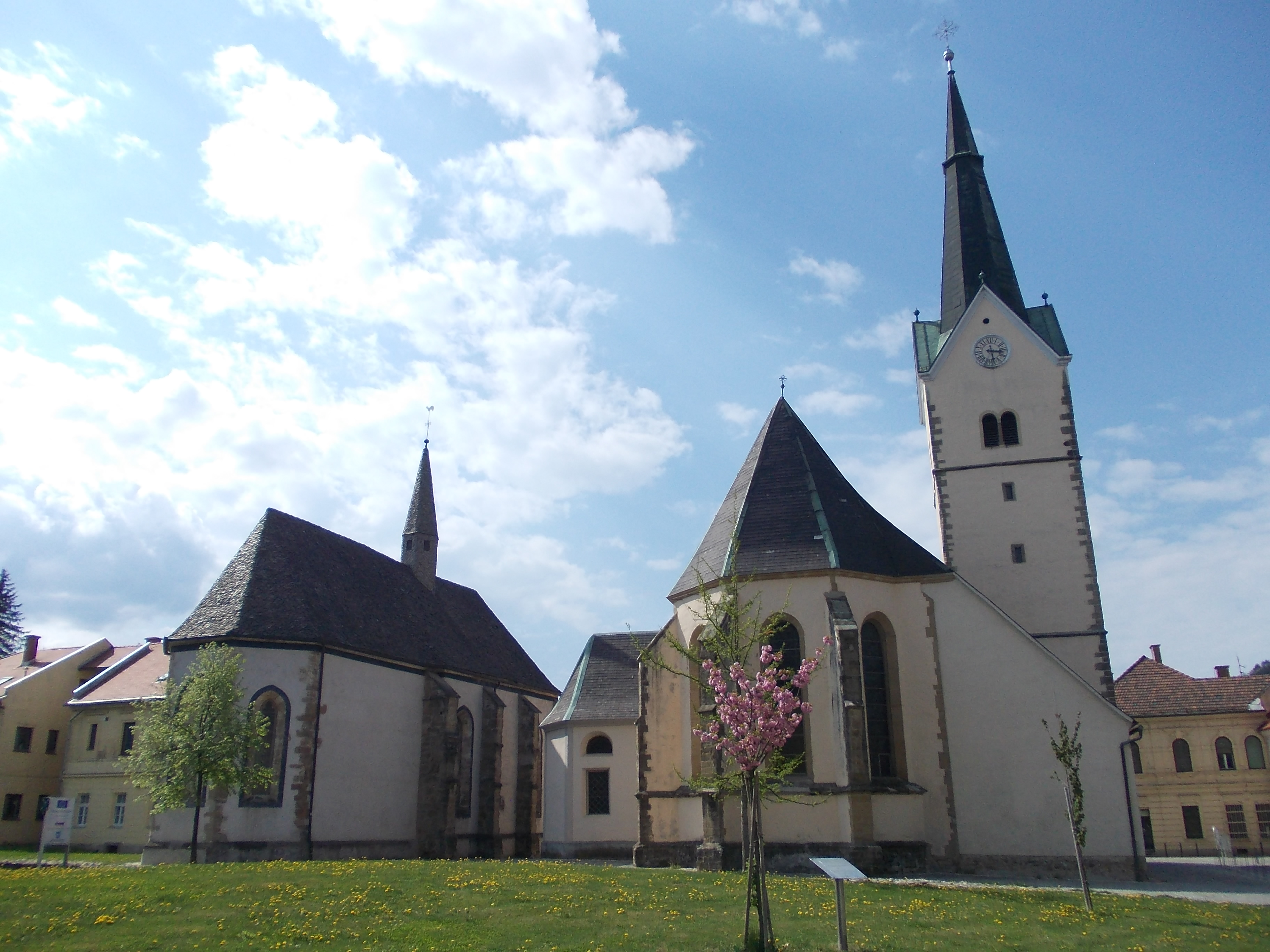 St. Elizabeth of Hungary Parish Church and Holy Spirit Church (Slovenj Gradec)